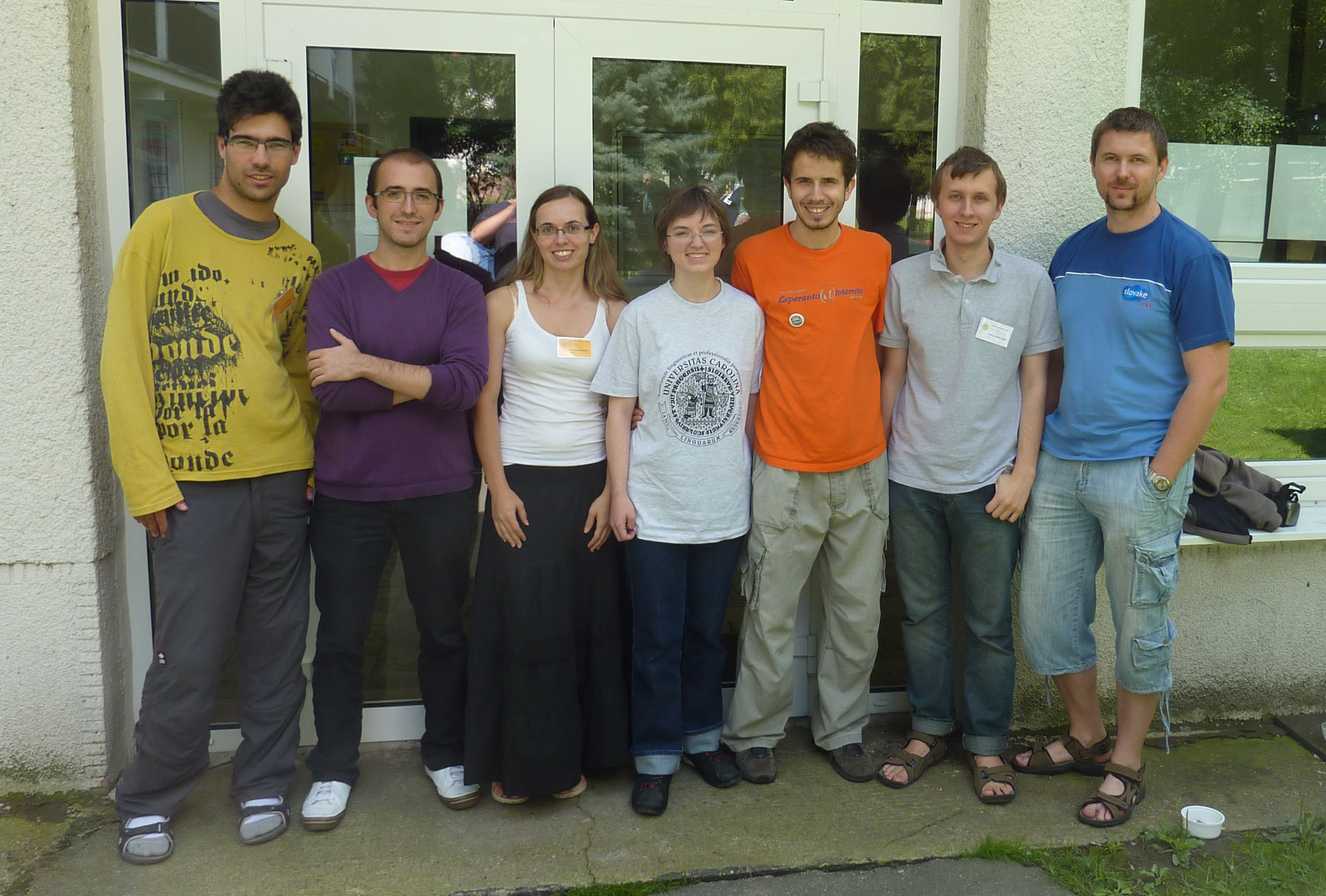 Activists of E@I in Nitra during the Summer Esperanto Study 2011. All the coordinator, the employee, the current trainees and the former trainees.